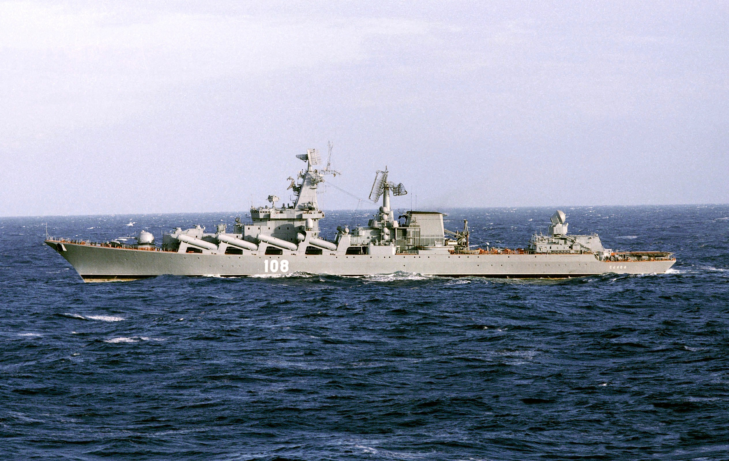 A port beam view of the Soviet guided missile cruiser SLAVA underway.